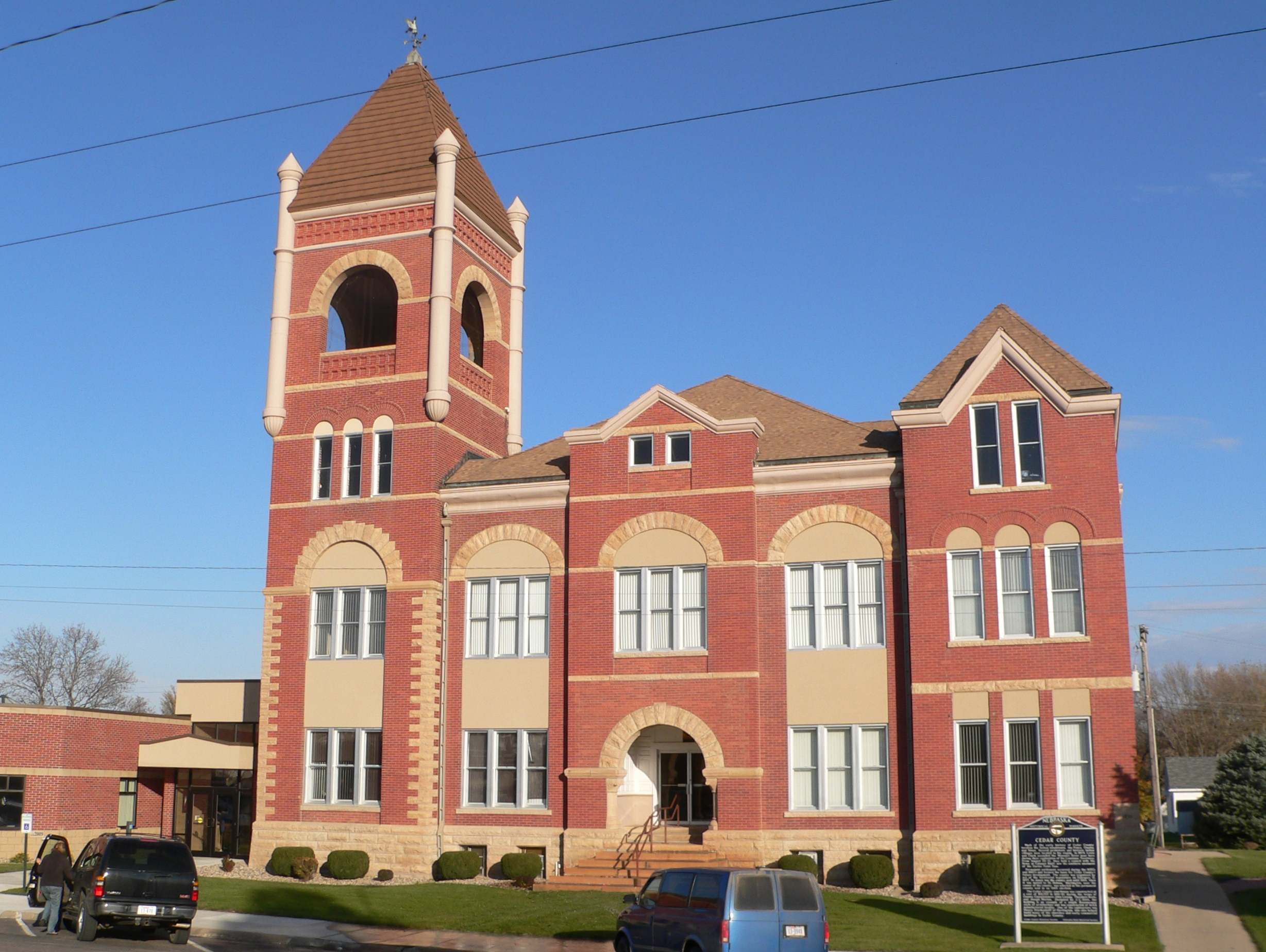 Cedar County Courthouse in Hartington, Nebraska; seen from the west. The courthouse was built in 1891; the Romanesque Revival building is listed in the National Register of Historic Places. At left is a one-story annex, constructed in 1999.